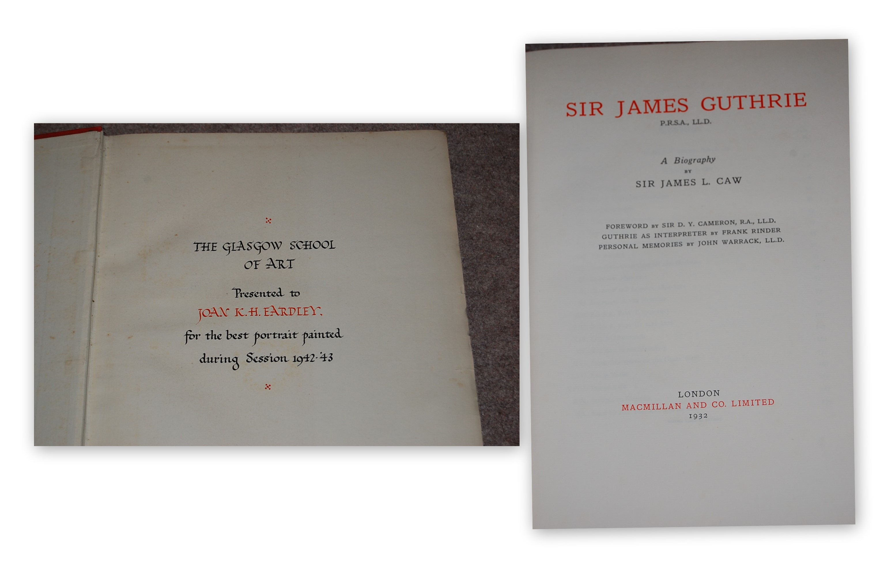 The Guthrie Prize referred to in the article on the artist Joan Eardley